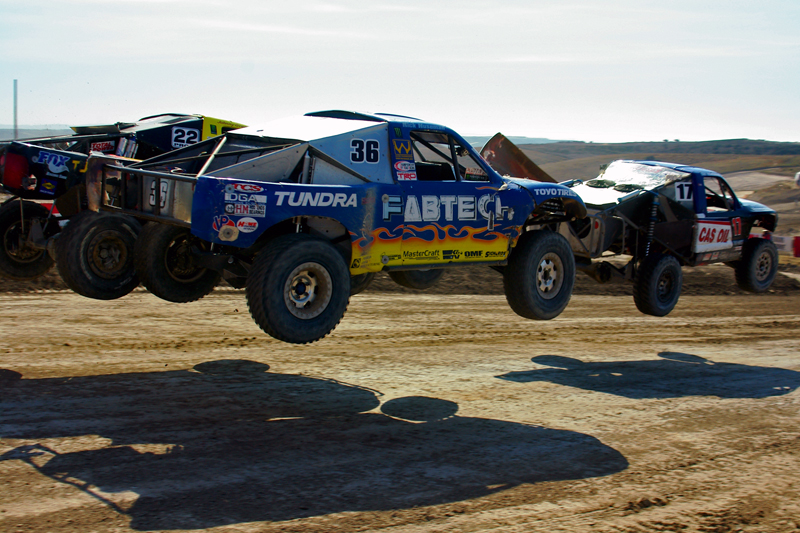 Three Pro-4 Championship Off-Road Racing (CORR) trucks launch the main jump at Round 16 in Chula Vista, California, U.S.